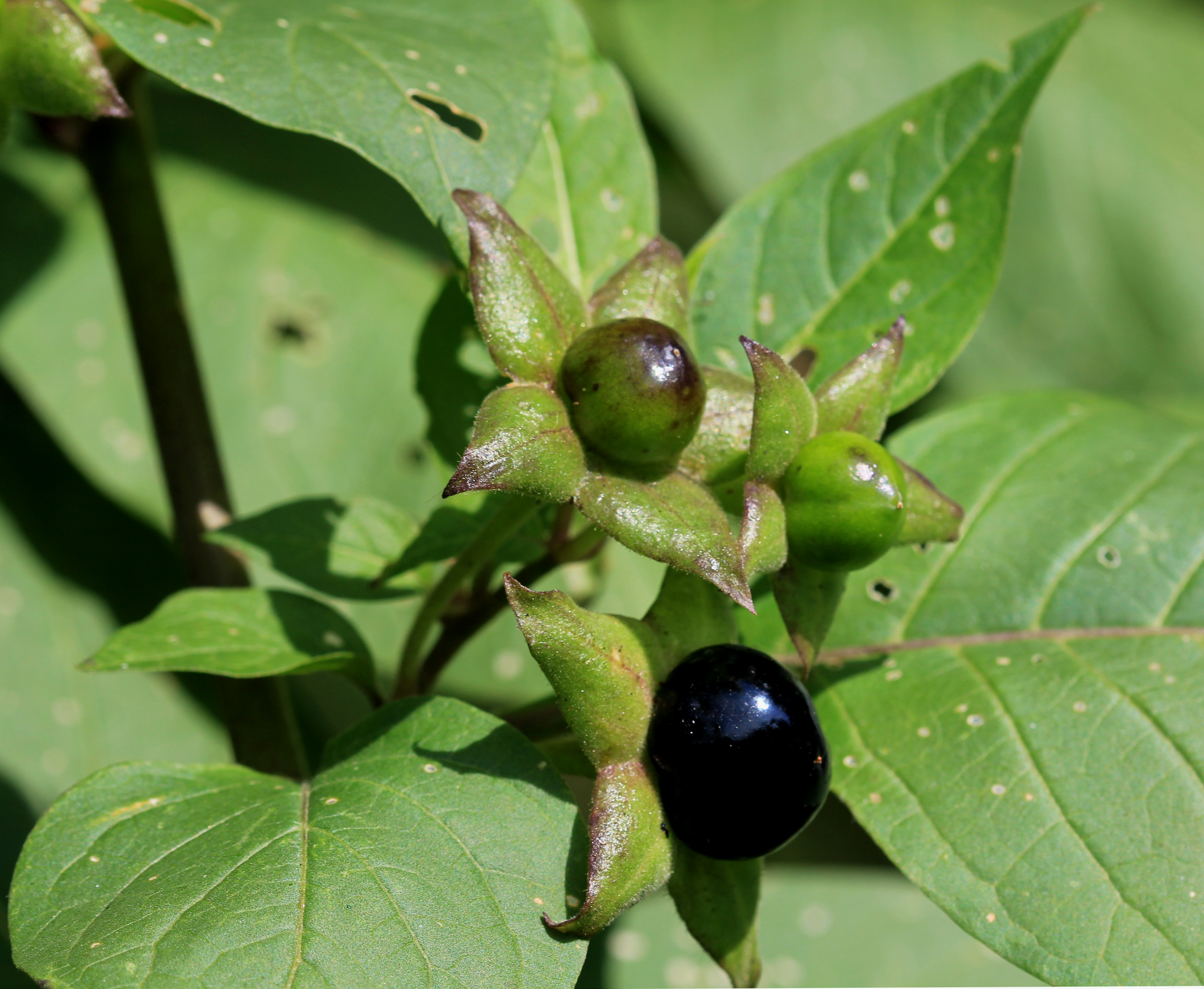 Fruits of plant Atropa belladonna from the Botanical Gardens of Charles University, Prague, Czech Republic